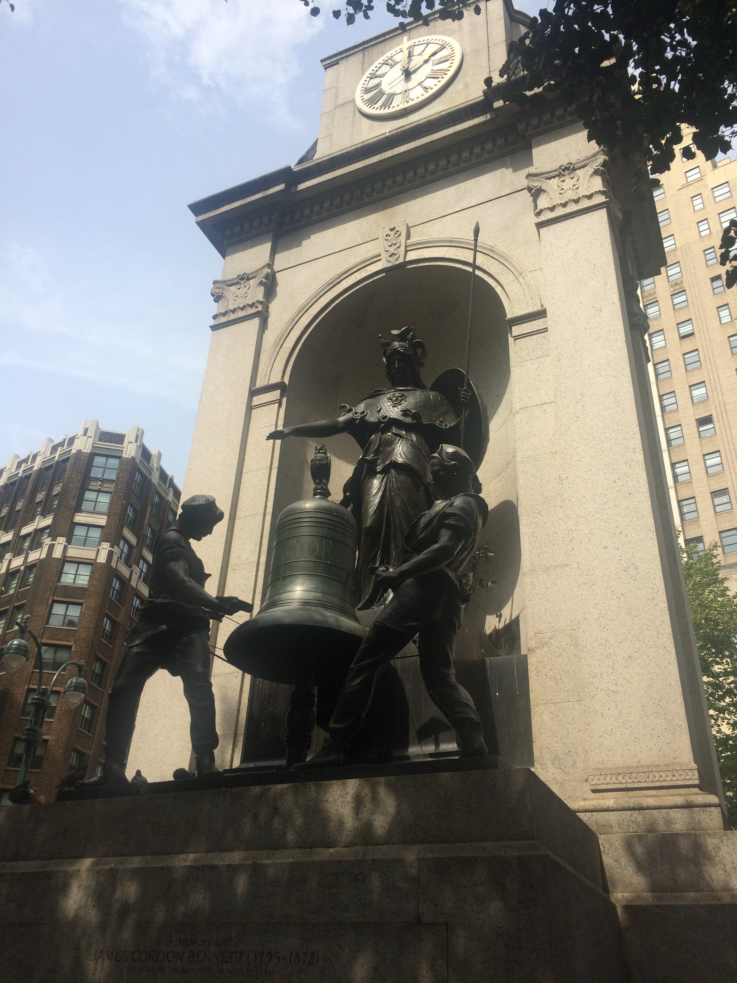 Standing at the center of Herald Square, this statue is a memorial to the founder of the New York Herald, James Gordon Bennett (1795-1872), and his son, James Gordon Bennett (1841-1918). The inscription on the base reads: "The bronze figures of Minerva and the bell ringers are the work of Antonin Jean Carles. They stood from 1895 to 1921 above the cornice of James Gordon Bennet's New York Herald building on the north side of Herald Square and tolled the active hours to the millions. In 1928 they were given by William T. Dewart, publisher of the New York Sun, to New York University through whose generosity in 1939 they entered on permanent loan, the care of the Department of Parks of the City of New York that they may be here restored to their original area of pleasant service and to their place in the hearts of our citizens. Funds for their restoration were provided by subscription of business organizations whose lives are deep rooted in the neighborhood of Herald Square."